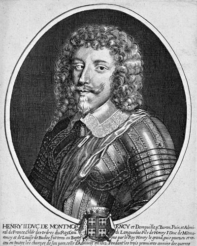 Henri II de Montmorency, Marshall of France (1595-1632)